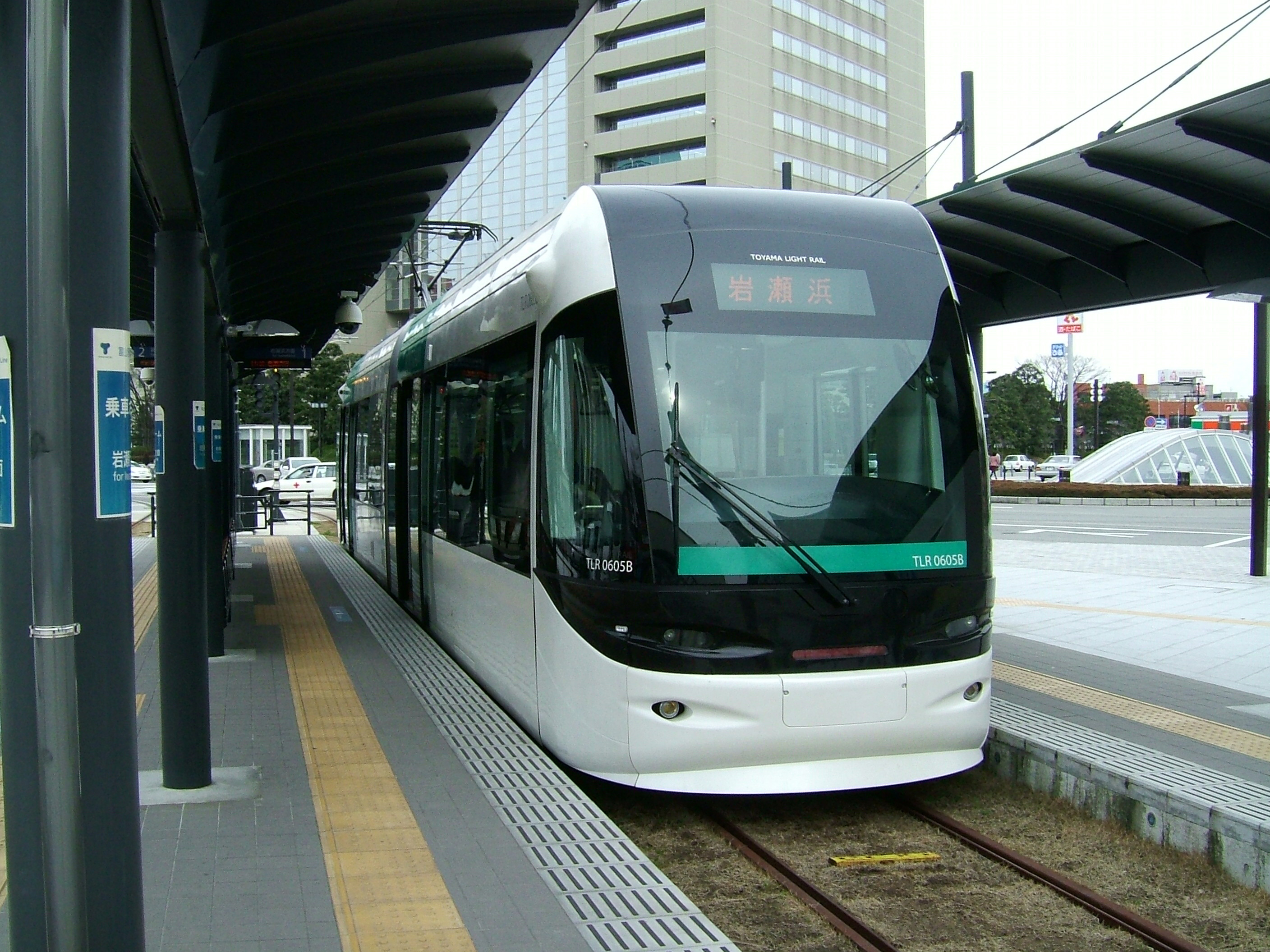 Toyama Light Rail tram